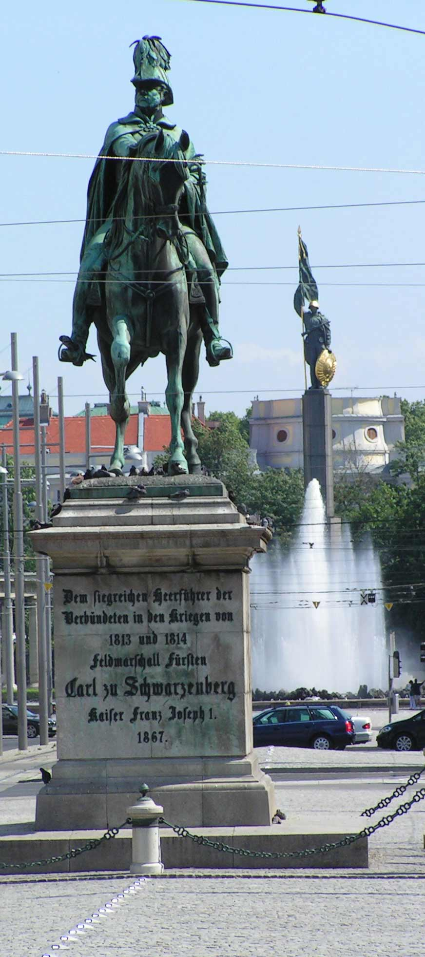 Schwarzenberg Place in Vienna. In front Memorial for Karl Philipp Fürst Schwarzenberg, backwards memorials for Sowjet-Soldiers.